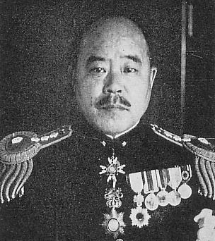 Tsurukichi Maruyama(The 33rd Superintendent General of the Tokyo Metropolitan Police Department)